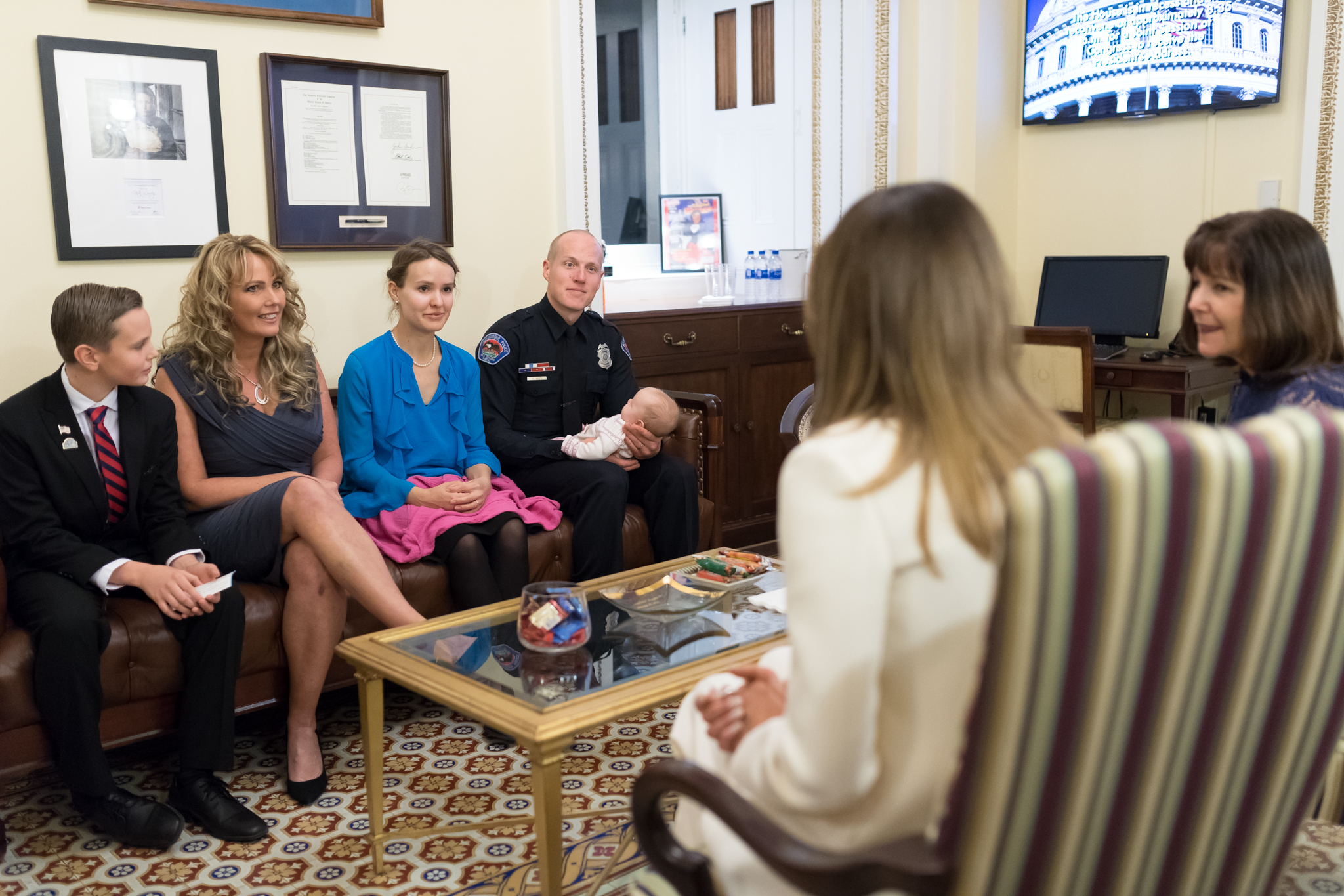 State of the Union 2018 (Official White House Photo by Andrea Hanks)